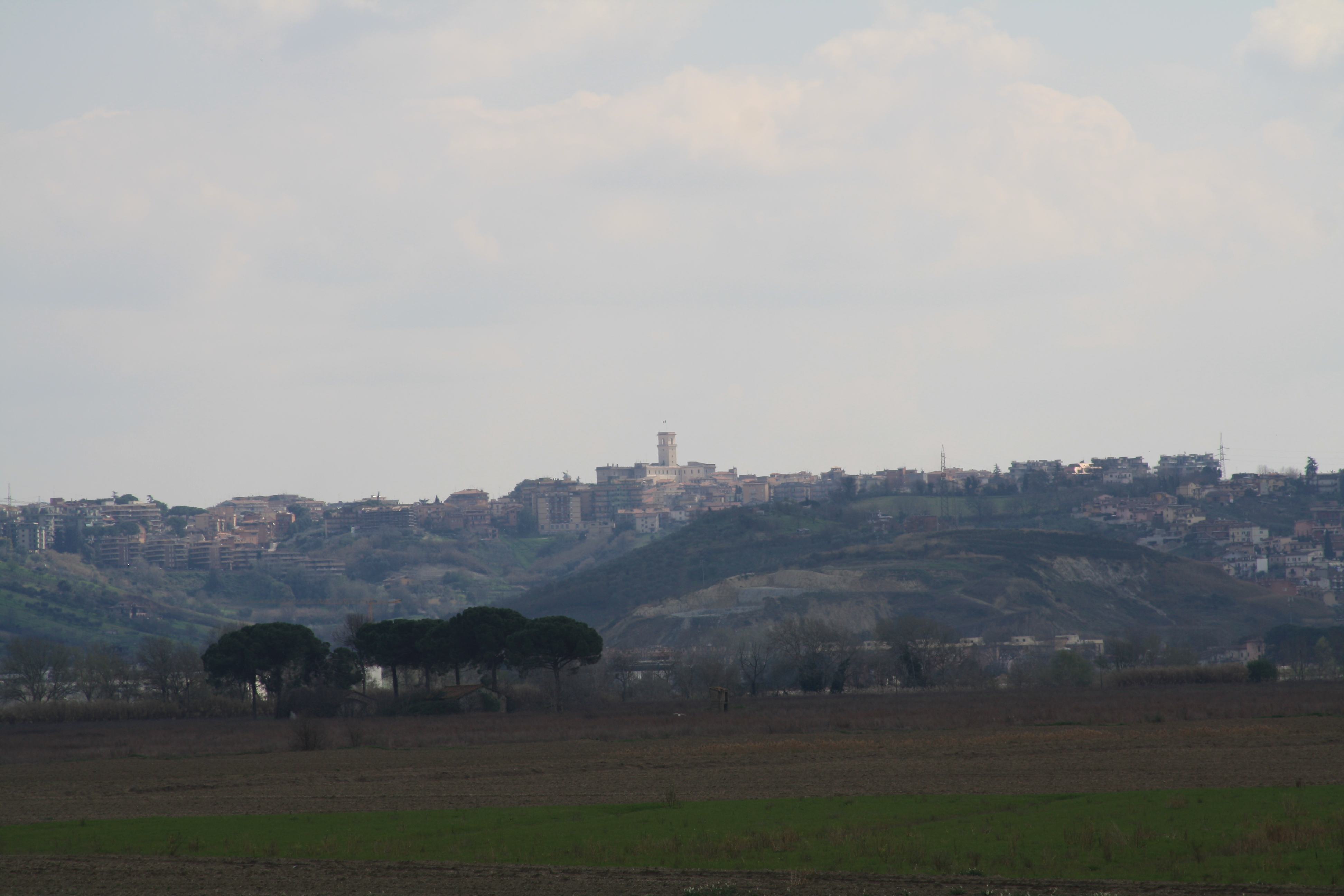 Monterotondo seen from motorway exit Castelnuovo di Porto